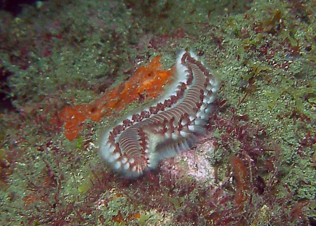 Marine polychaete worm belonging to the Amphinomidae family in the waters around Isla Aguja, Tayrona National Park, accessed from Taganga, Santa Marta, Colombia